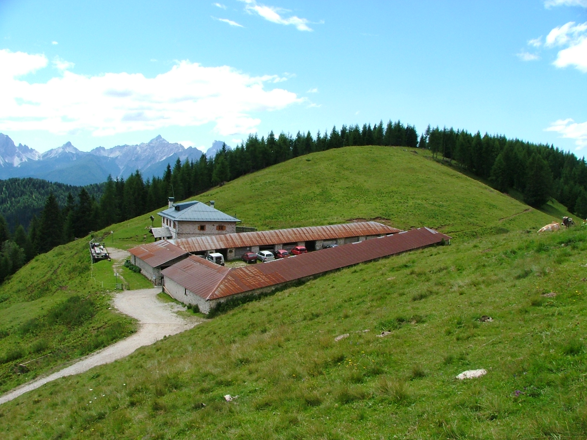 Baion hut in Domegge di Cadore,Marmarole, Dolomites, Italy